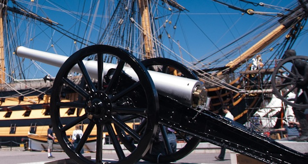 Photograph showing a QF 12 pounder 8 cwt naval landing gun with HMS Victory in the background, at Portsmouth, UK.